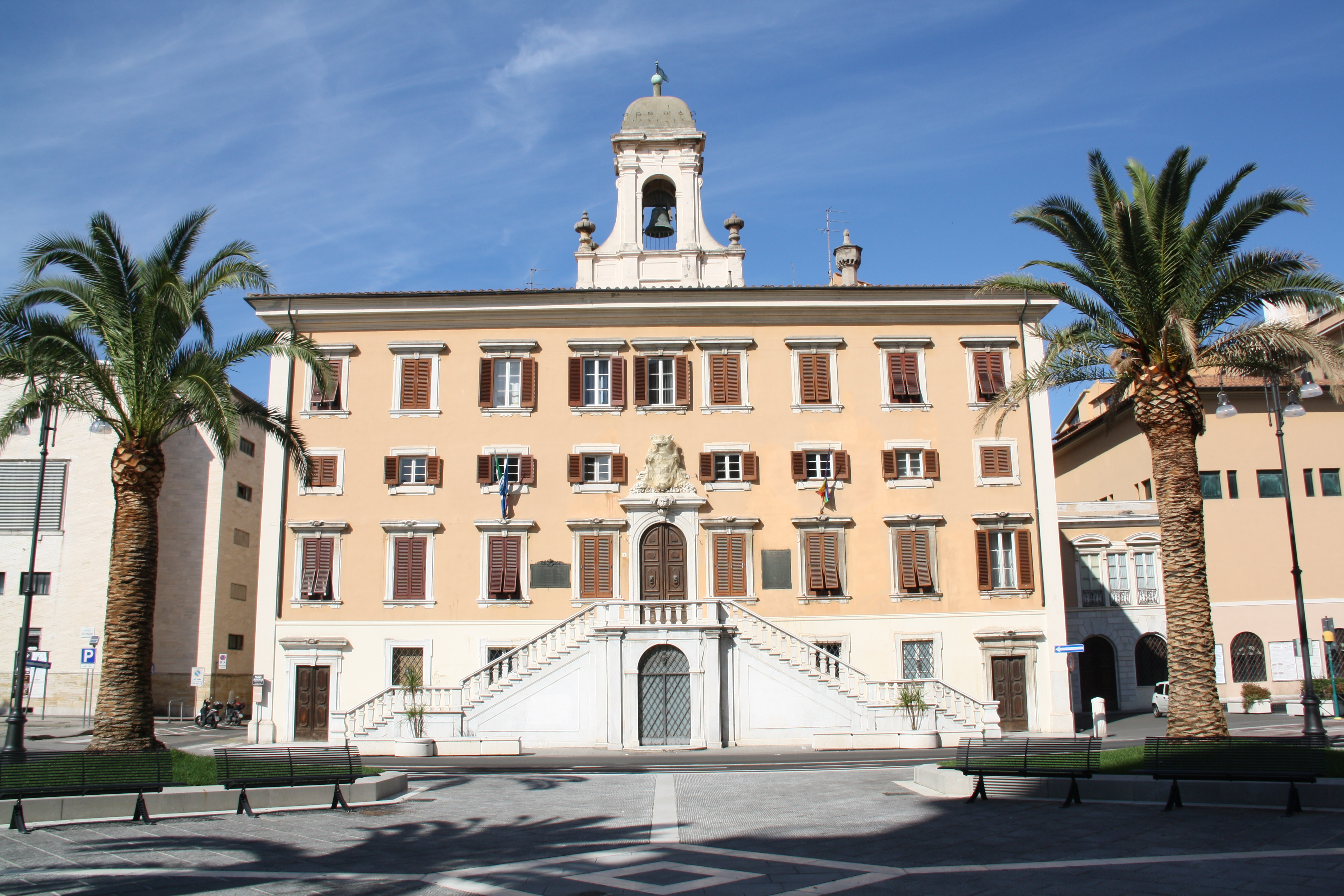 Italy, Livorno. The Palazzo Comunale.